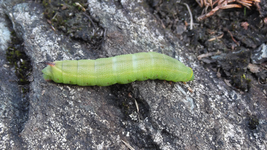 The caterpillar of the One-Eyed Sphinx Moth